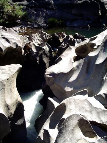 © Leonardo C. Fleck